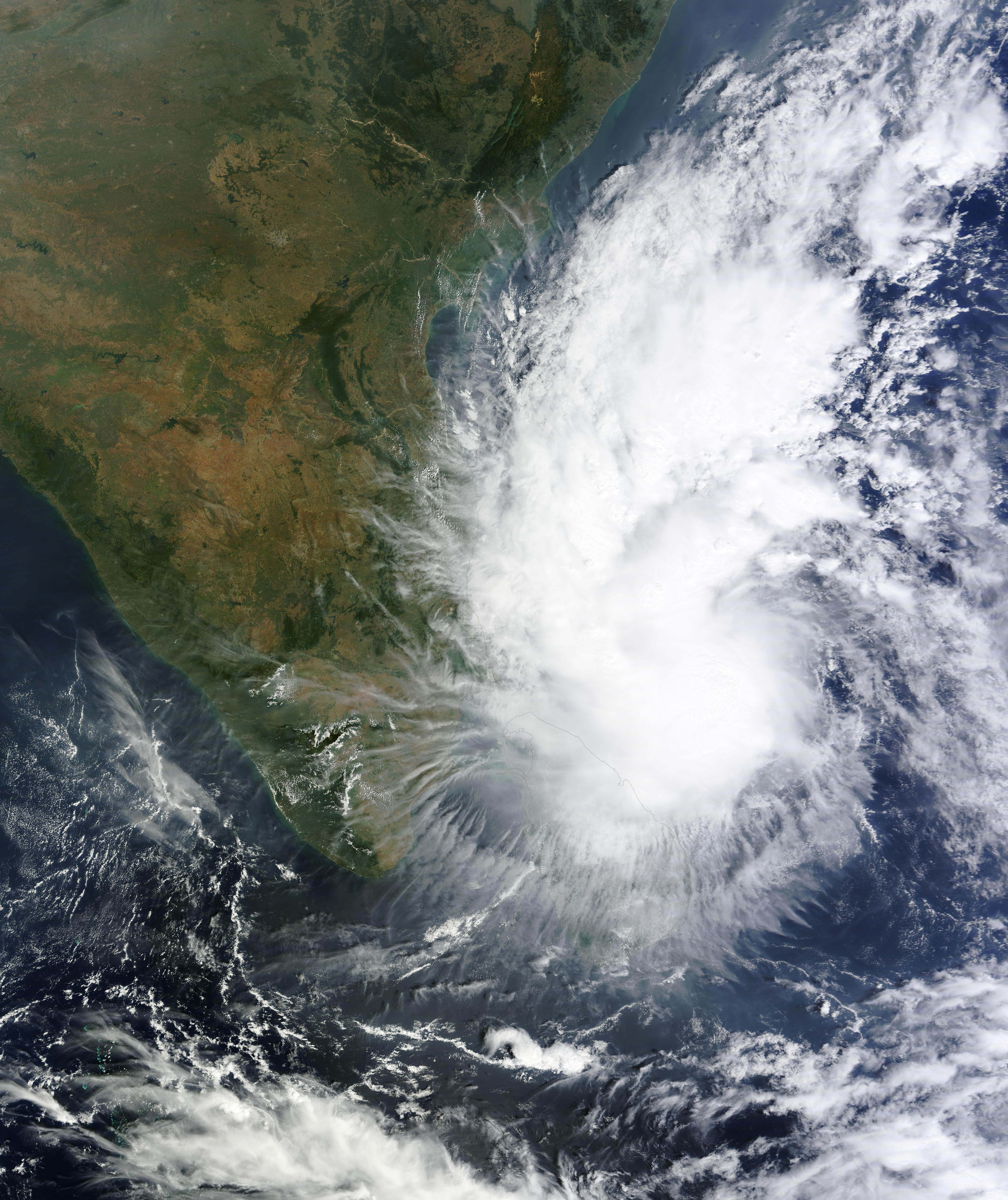 Tropical Depression Wilma over the Bay of Bengal on 15 November 2013